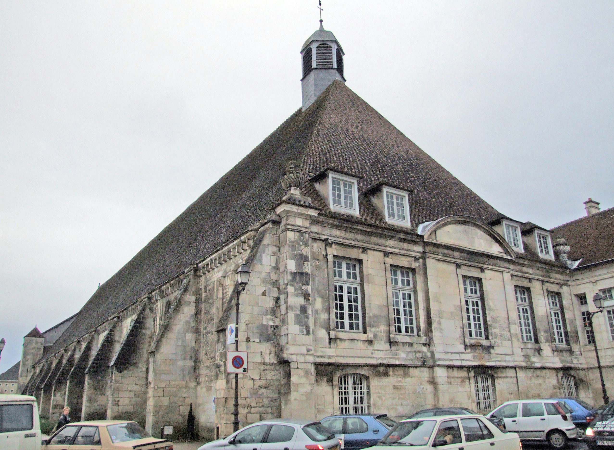 Tonnerre, Burgundy, FRANCE